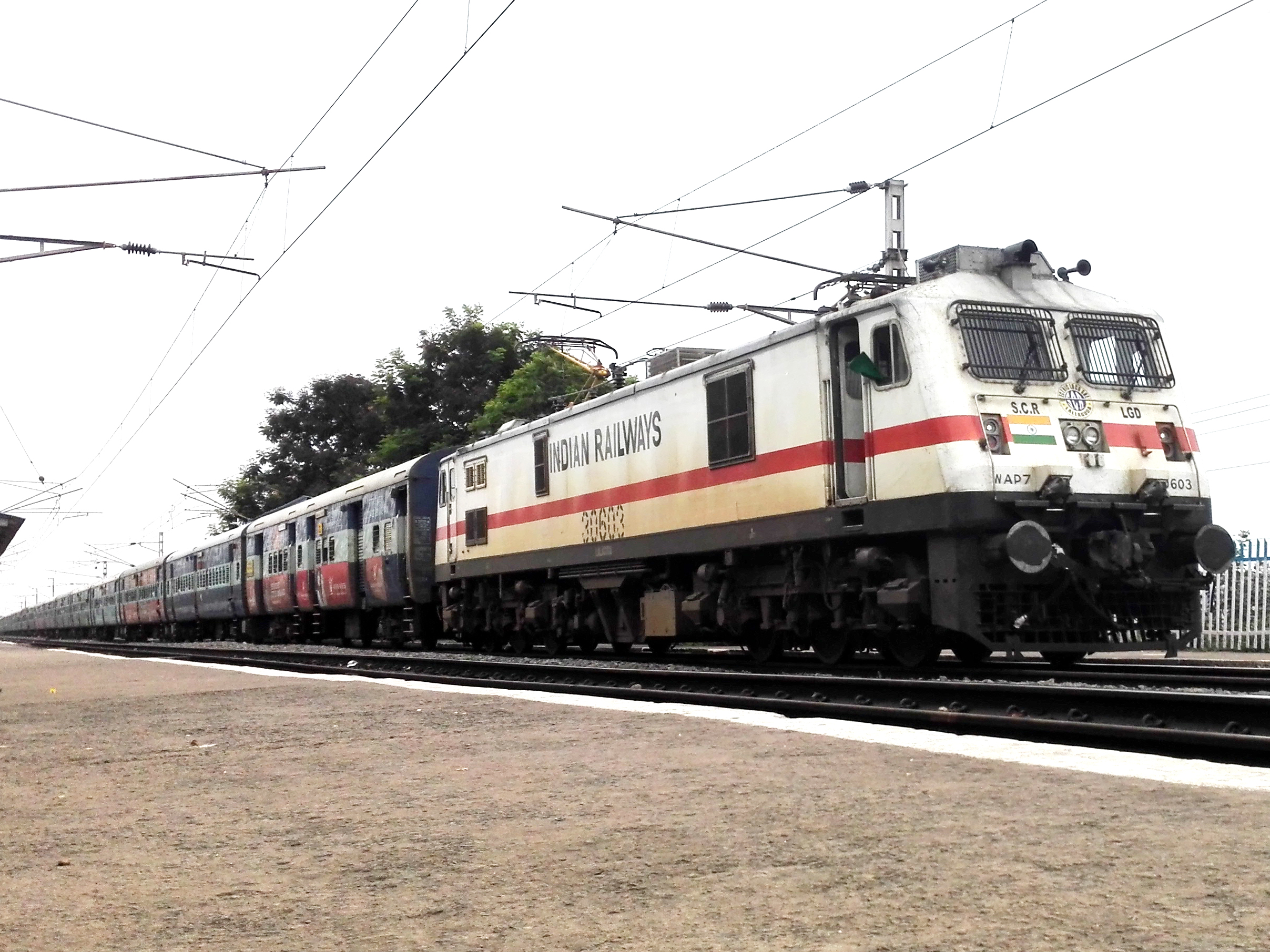 12717 Ratnachal Express with a WAP-7 loco at Marripalem, Visakhapatnam